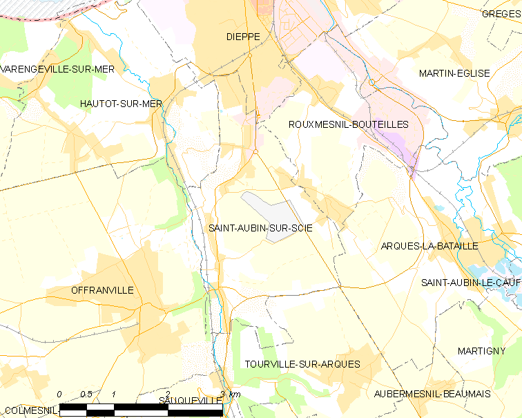 Map of French municipality Saint-Aubin-sur-Scie